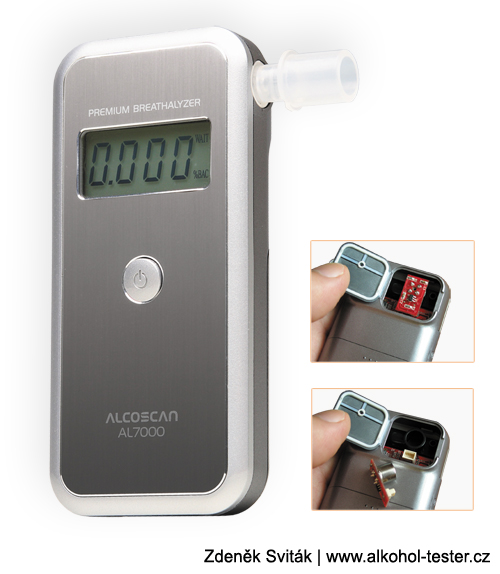 Alkohol tester AL7000, vymenny senzor